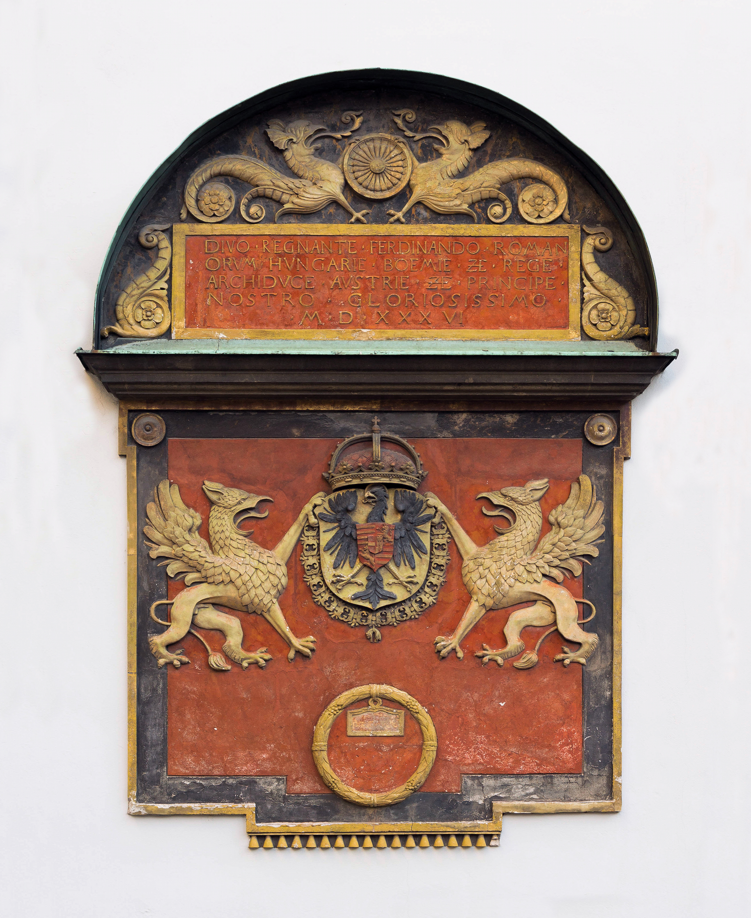 The CoA of the later Ferdinand I, Holy Roman Emperor, brother of Charles V, as king of the Romans, of Hungary, of Bohemia, and Archduke of Austria, in 1536. Please notice the Golden Fleece order collar. Schweizertrakt, Amalienburg Courtyard, Hofburg palace, Vienna, Austria